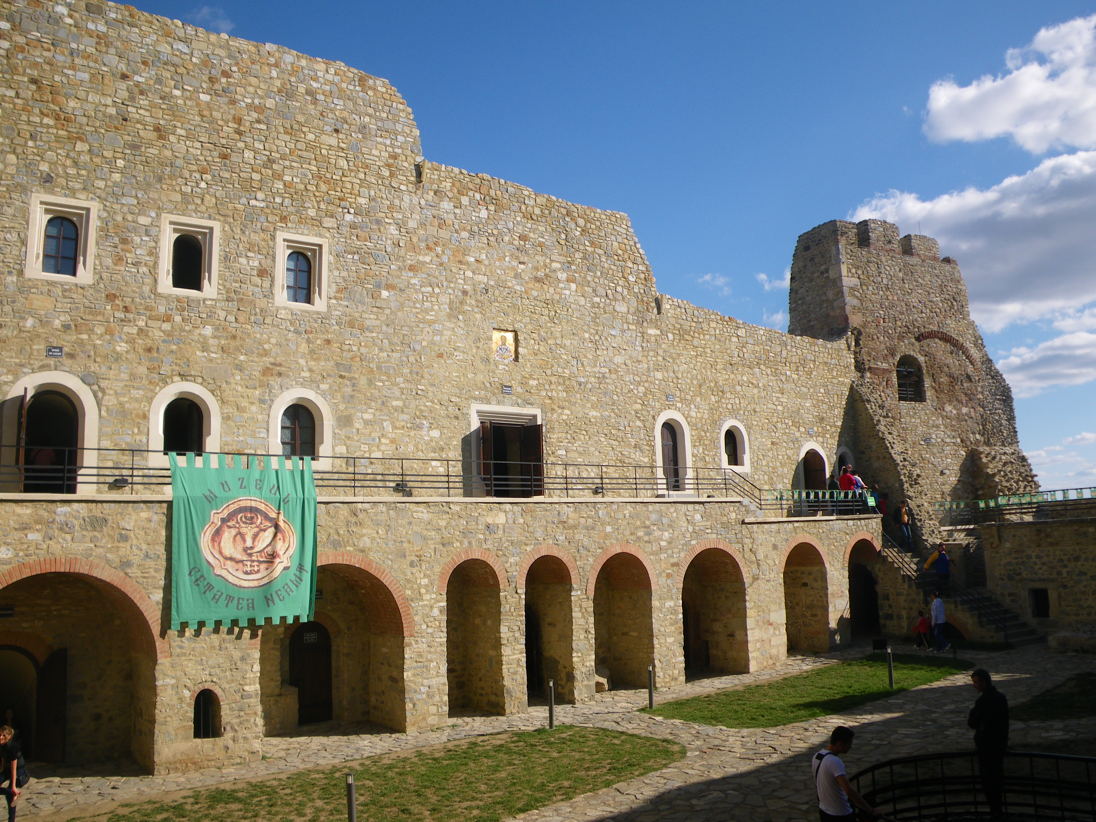 Neamt Citadel 2009 -Reconstructed Portion of the mediaval citadel